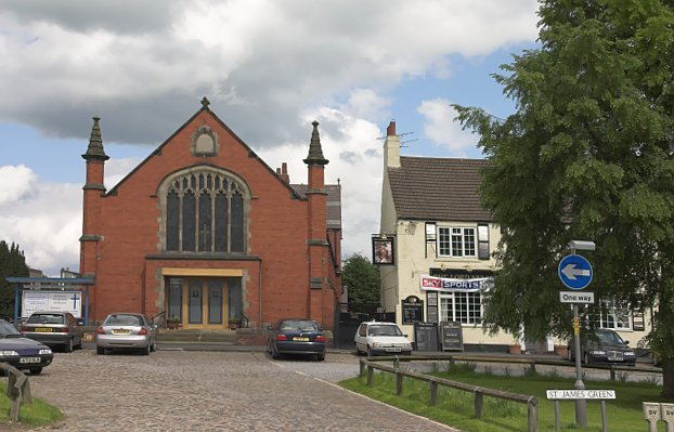 The church on St James Green in Thirsk. St James Green Methodist Church